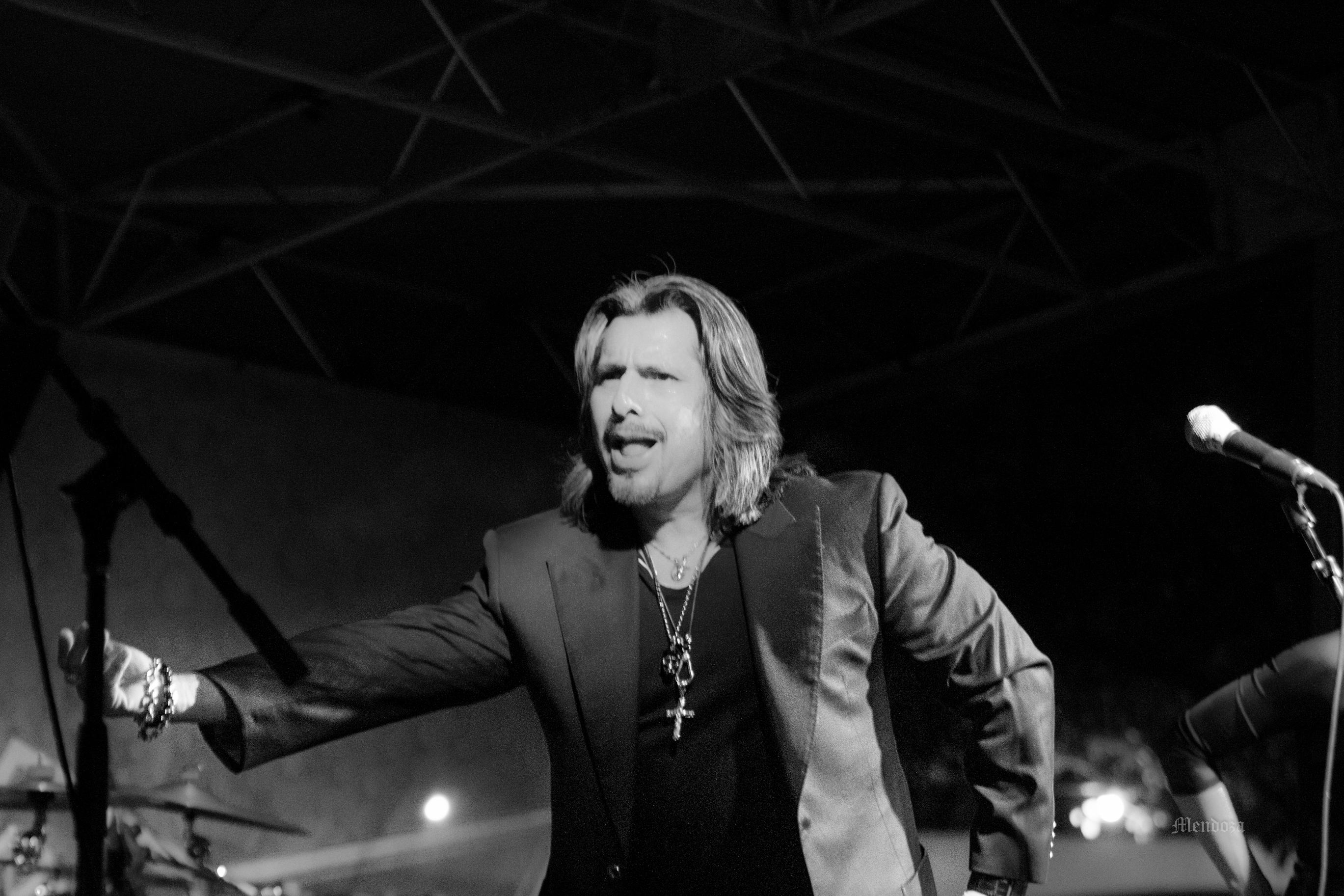 Laredo